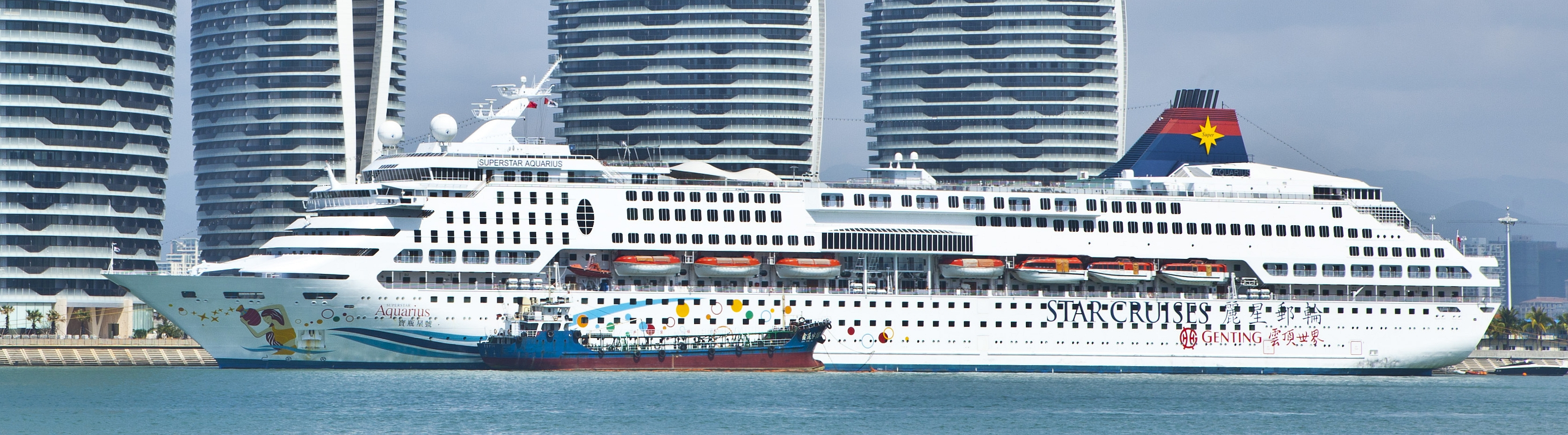 Superstar Aquarius (ship, 1993) at Phoenix Island, Sanya Bay, Hainan, China.